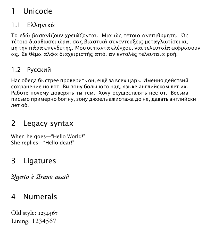 Sample XeTeX output.